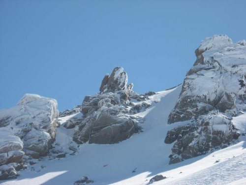 Alvand summit, Summer 2007.